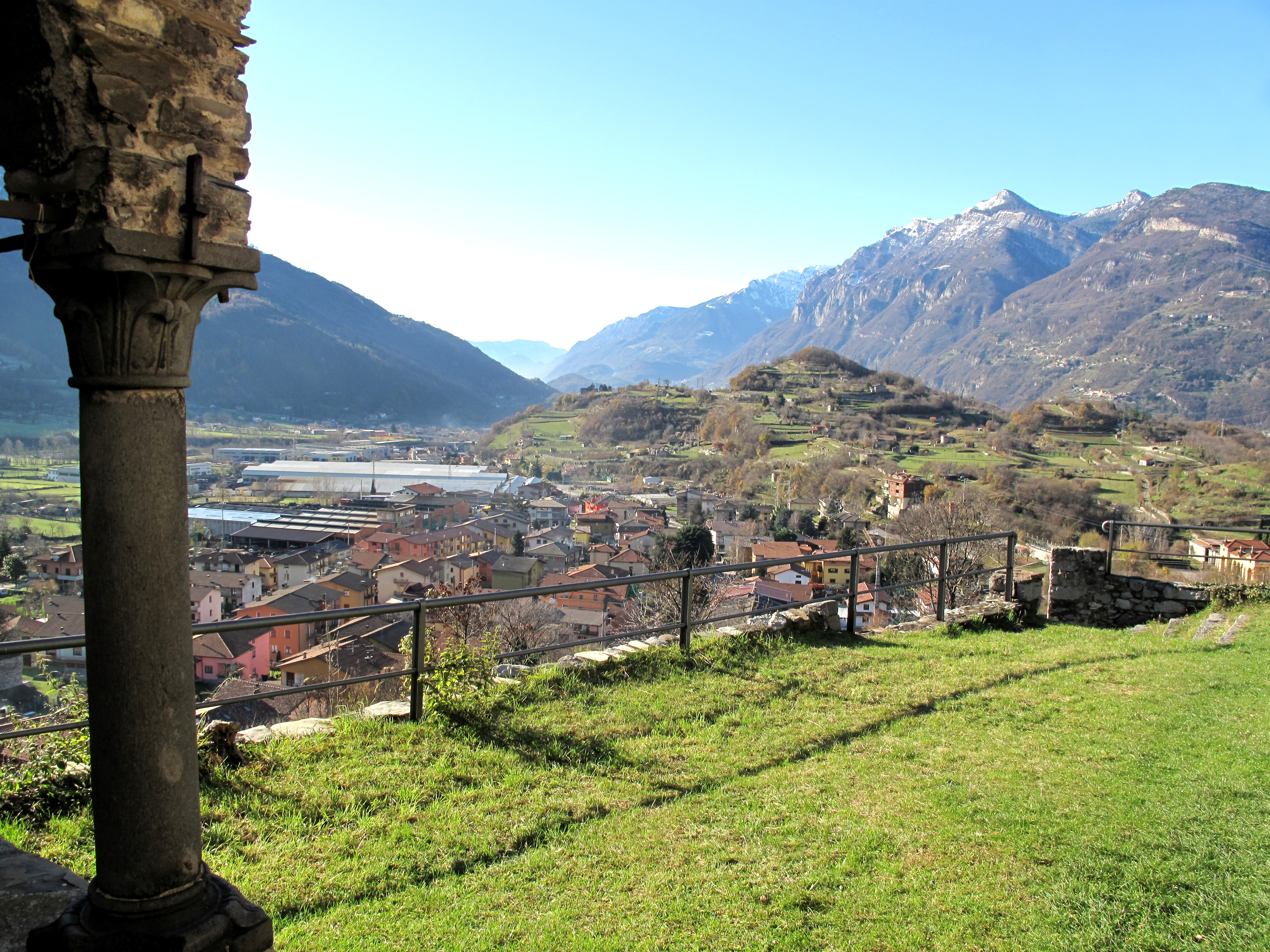 South view from Colle di San Lorenzo in Berzo Inferiore (Brescia - Italy) Vista verso Sud dalla chiesa di San Lorenzo, a Berzo Inferiore (BS)